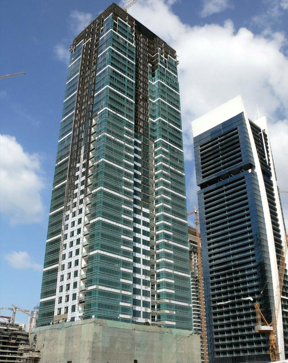 This is a photo showing the completion of LIWA Heights, located in Jumeirah Lake Towers in Dubai, United Arab Emirates, on 8 January 2008.